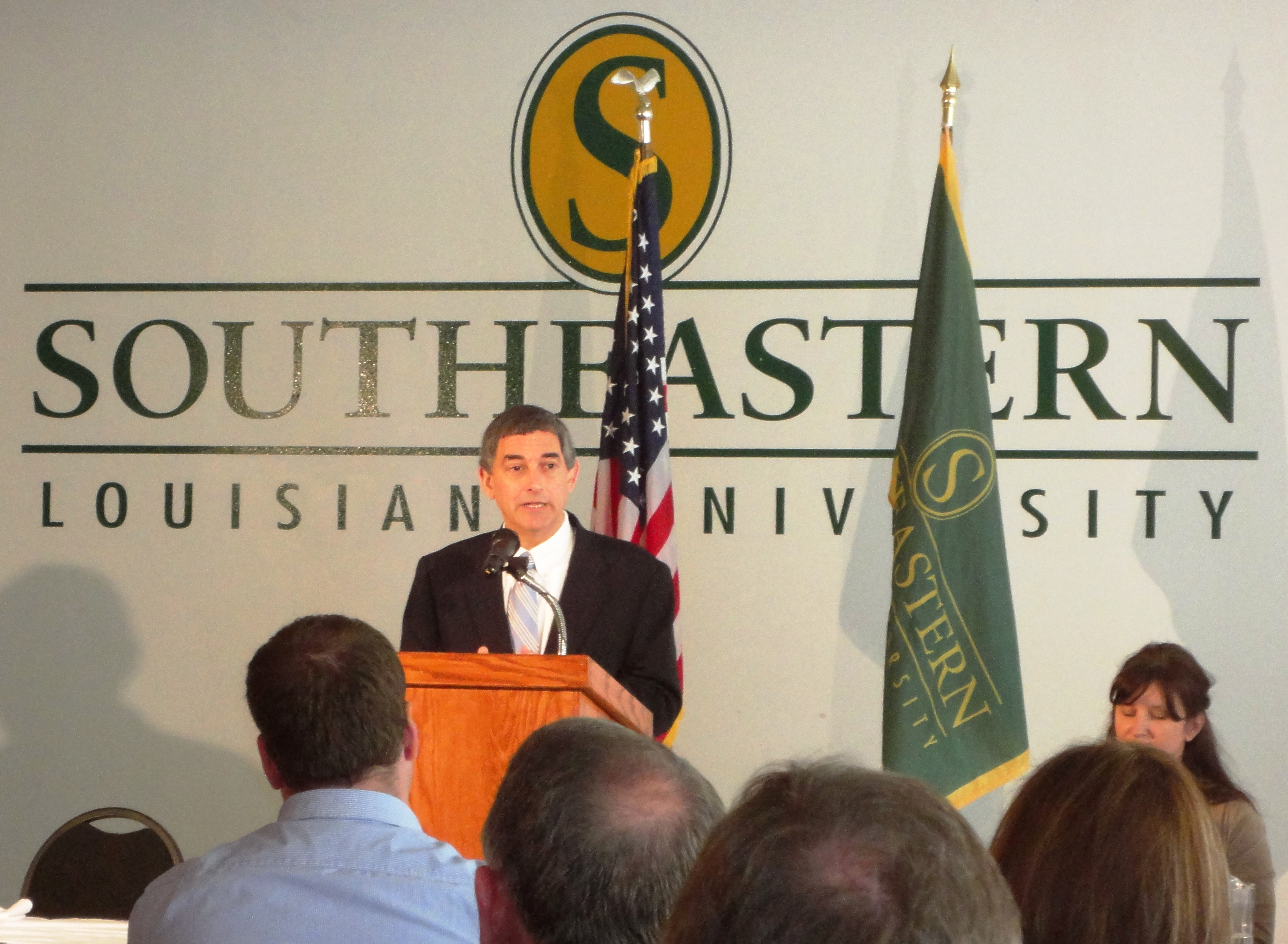 Louisiana Lieutenant Governor Jay Dardenne spoke 2012-01-19 to the Hammond Chamber of Commerce luncheon in the Twelve Oaks Cafeteria on the campus of Southeastern Louisiana University.